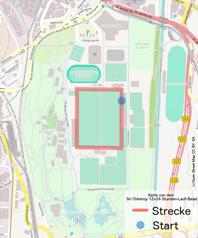 Card from: Sri Chinmoy 12+24 Hour Race Basel, Switzerland